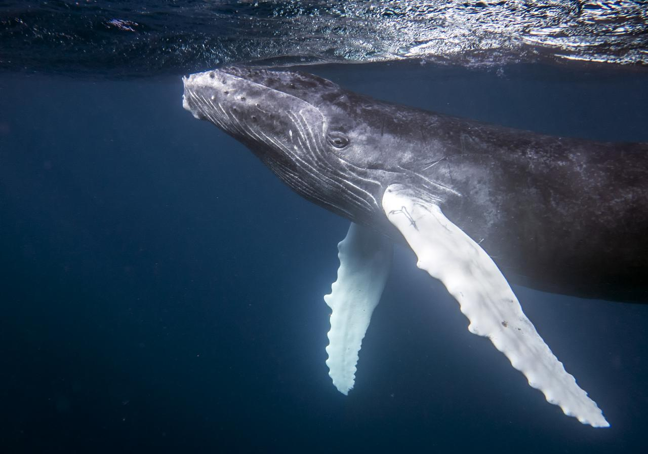 Want to play?